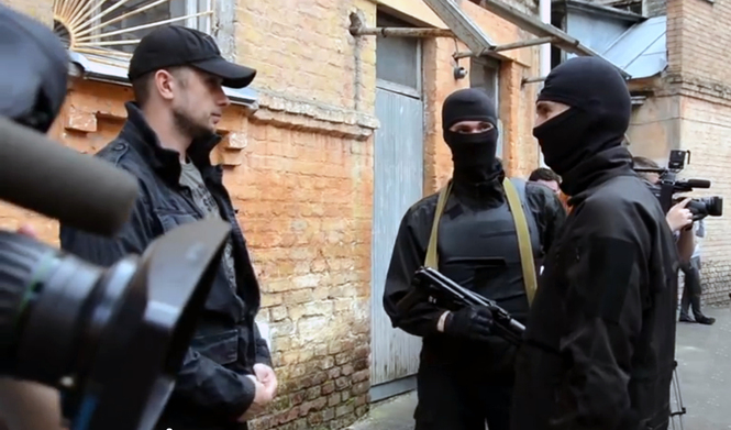 Andriy Biletsky, Lieutenant colonel of the Ukrainian police, commanding officer of the special police regiment «Azov» with volunteers.